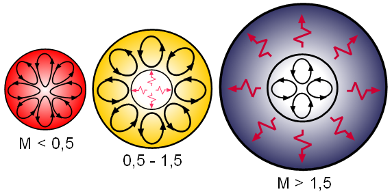 Star types. Low-mass stars, less than half a solar mass, are fully convective from core to the surface and thus of uniform composition. This is because their low temperatures make their opacity to photons high. In intermediate-mass stars such as the sun, radiation transport works well enough in the core that convection does not take place; a stagnant core develops, surmounted by a convective region. These stars' surfaces do not include fusion products from the core, but retain the same composition as the cloud from which they formed. At 1.5 solar masses, the convective layer has almost disappeared and the star is essentially fully radiative. Above 1.5 solar masses, the CNO cycle contributes the majority of the energy production. Because this cycle is much more sensitive to temperature, the star's energy production is more tightly concentrated in the center, and this causes the development of a convective core.